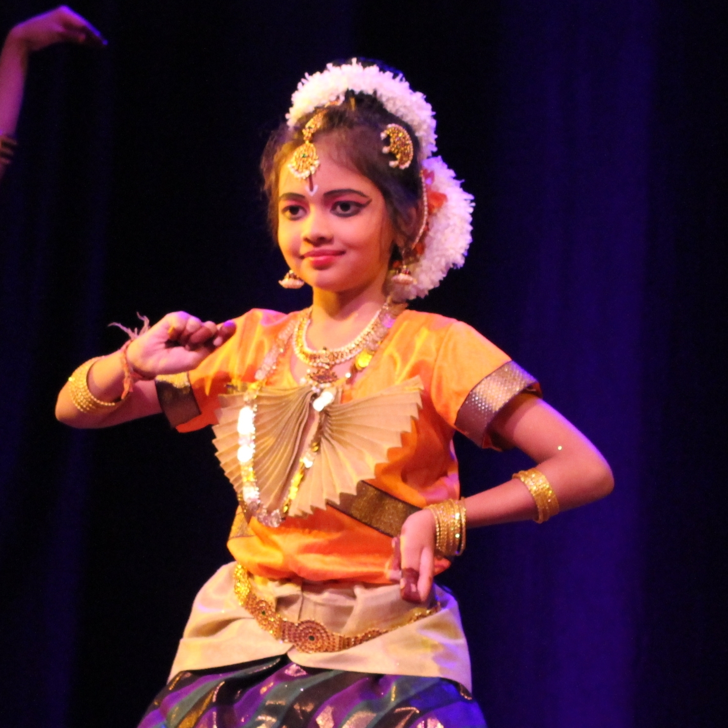 bharatnatyam dance ganesh pose